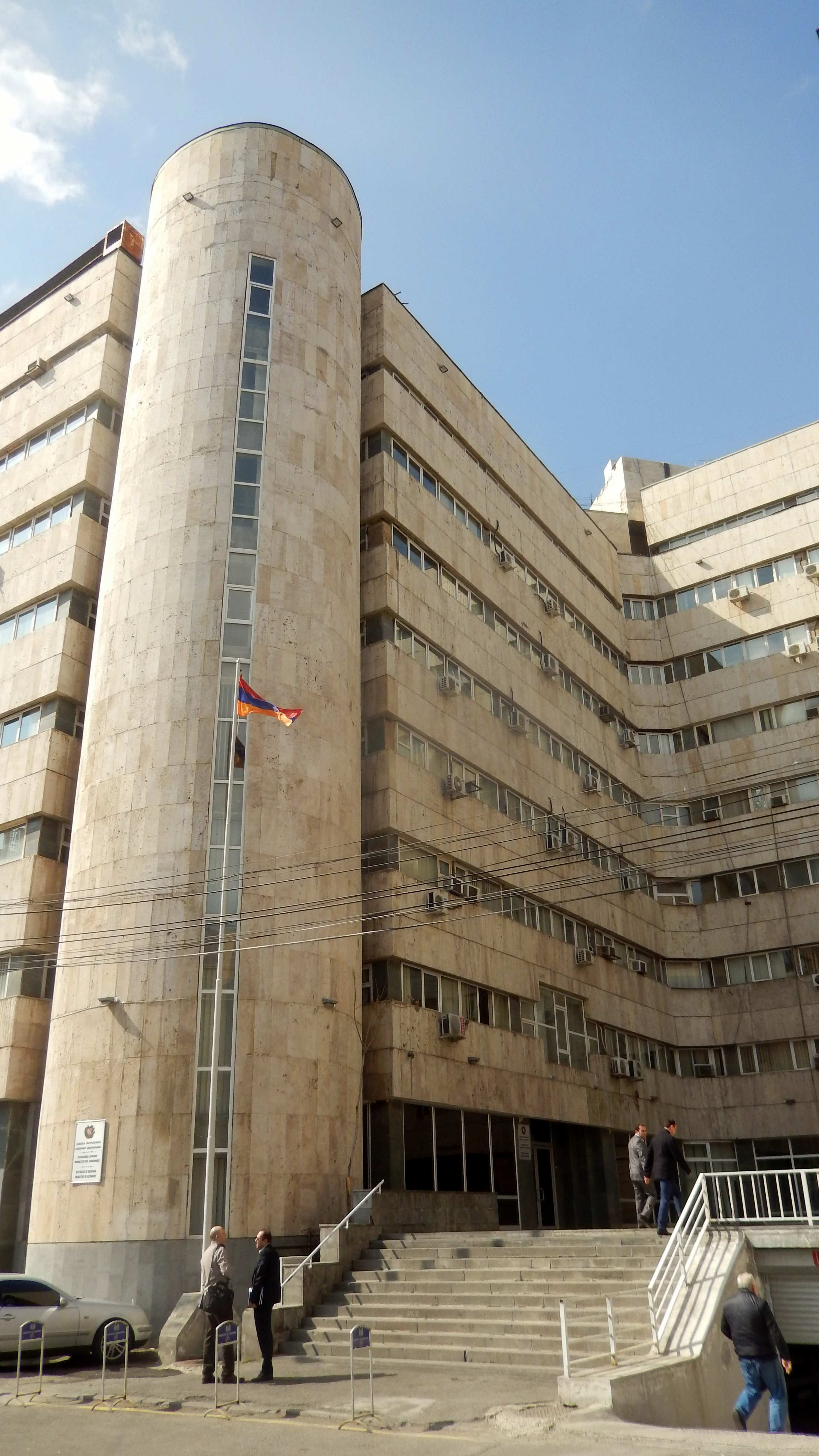 Mher Mkrtchyan Street